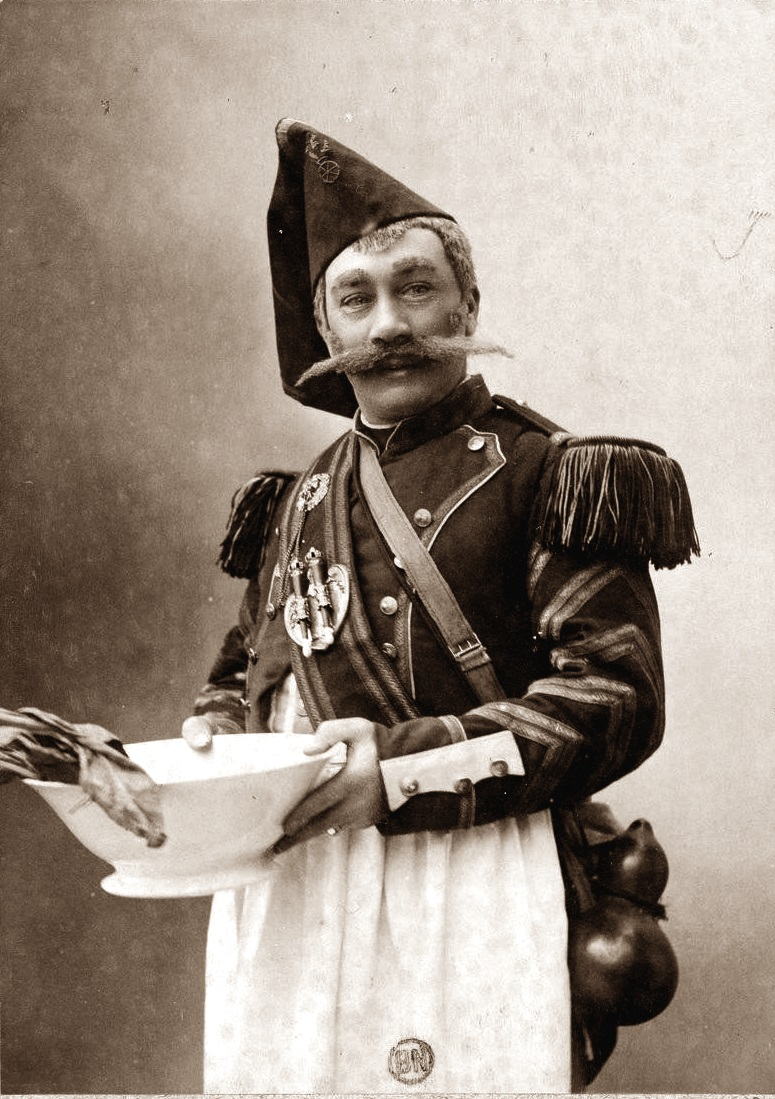 Eugène Vauthier in 1888 revival of La fille du tambour-major